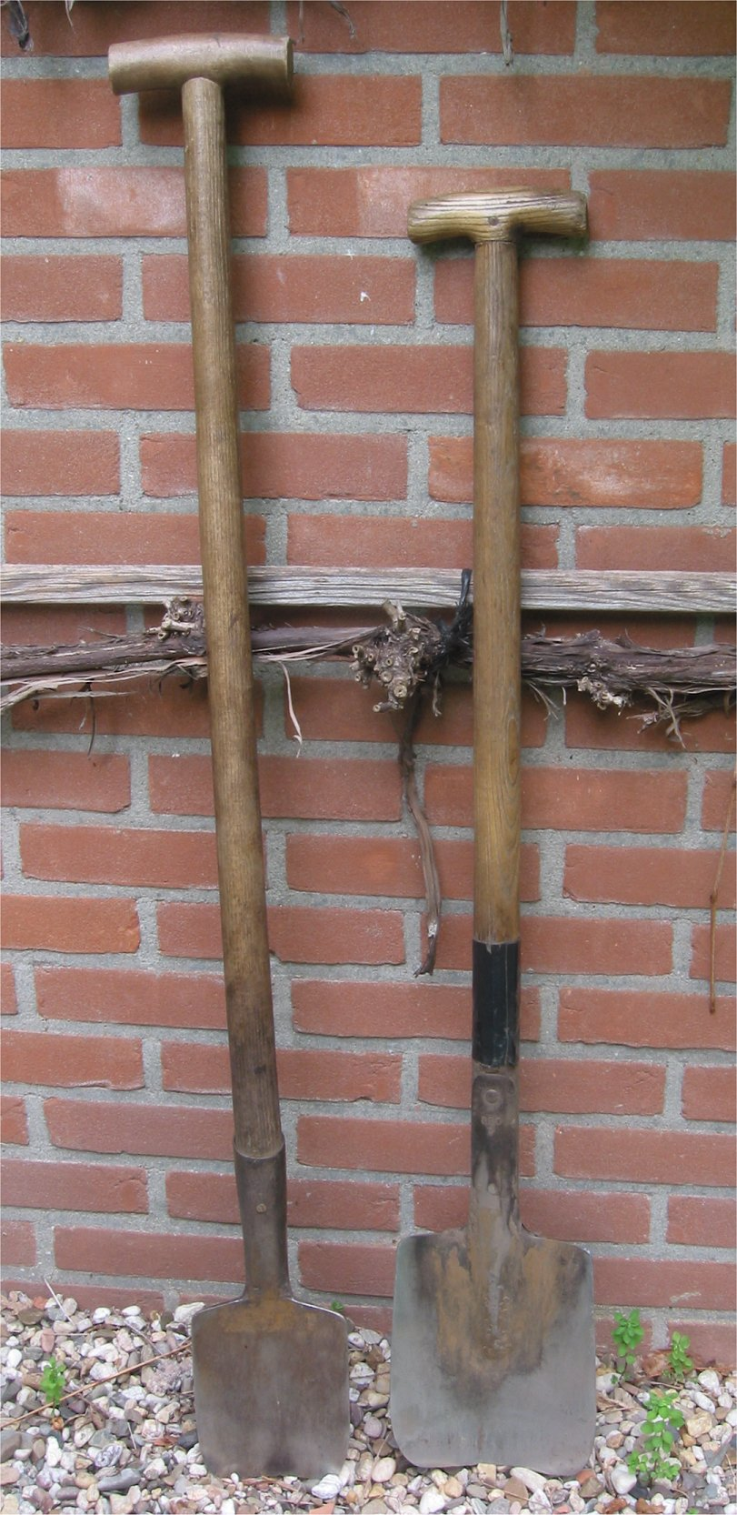 Spades, one for clay soil (the small one) and one for sandy soil